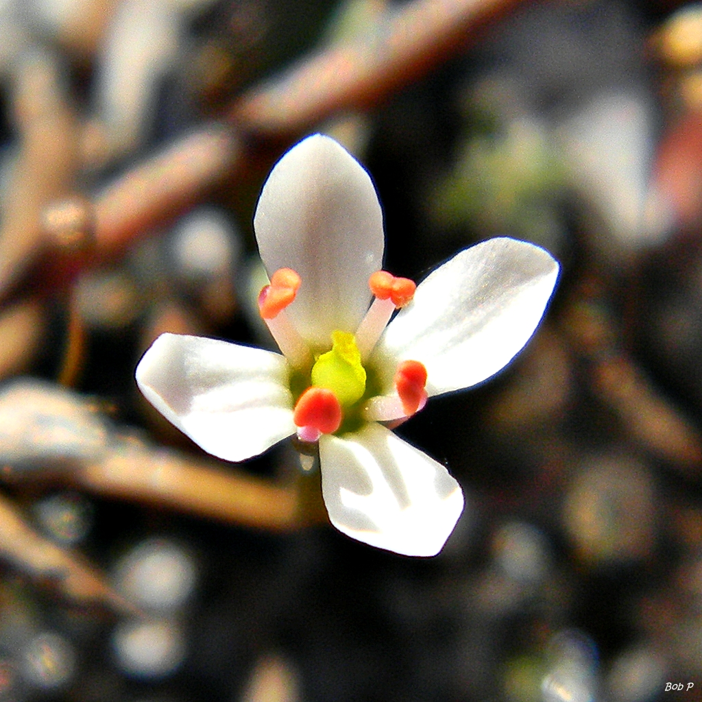 A micro wetland wildflower at Juno Dunes Natural Area. I also found this little plant at Jonathan Dickinson last year but it remained a mystery to me until I stumbled upon its identity last week. Today I found it at Juno Dunes. It likes to grow in moist pine flatwoods & depression marsh edges with its friend the zigzag bladderwort. If you go looking for it, keep in mind, like many of the wildflowers I post, it's smaller than it appears. I have seen one with 6 petals.